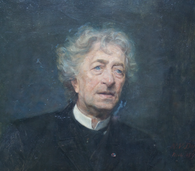 Peter Schram. Danish actor and oipera singer